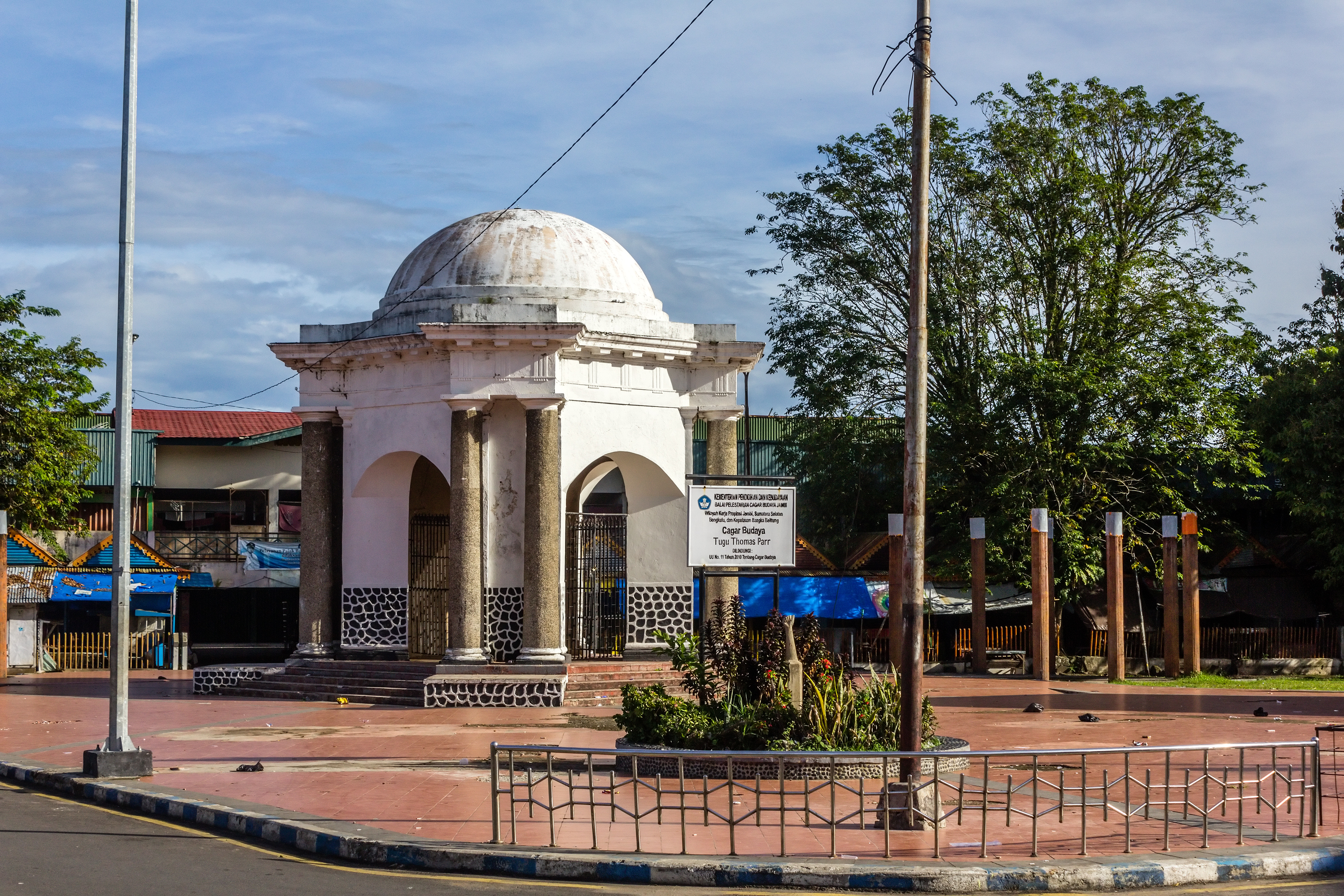 Thomas Parr Monument, Bengkulu, 2015-04-19